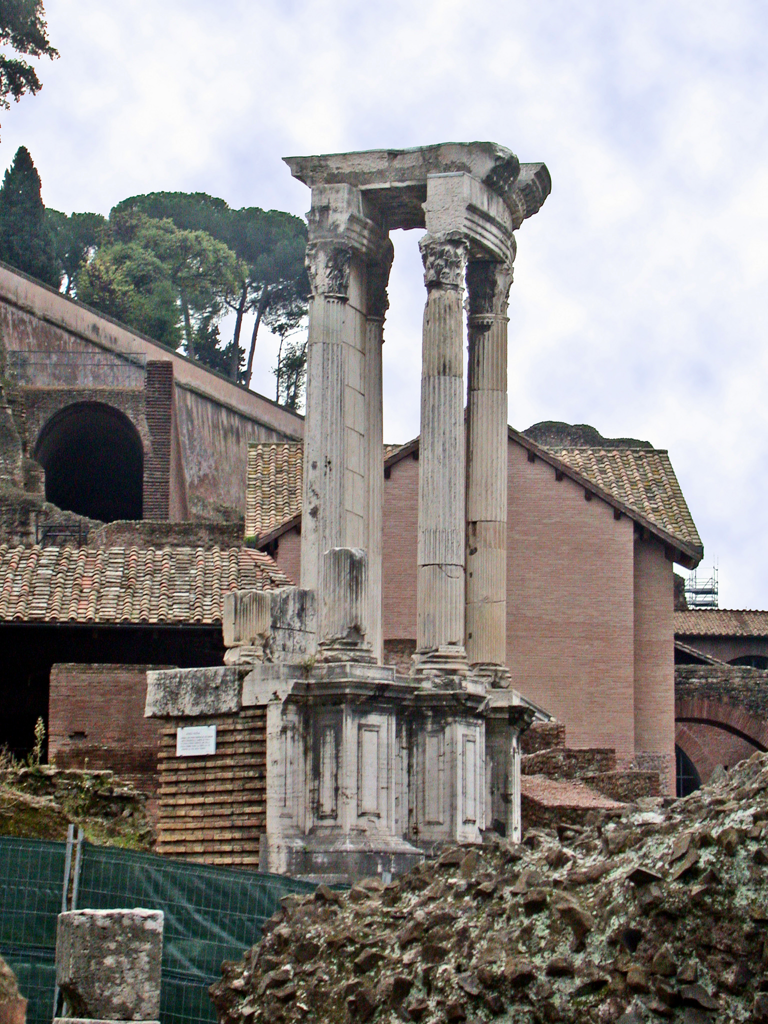 Rome, Roman Forum, Vesta's Temple. Personal photo (november 2005) by MM in it.wiki